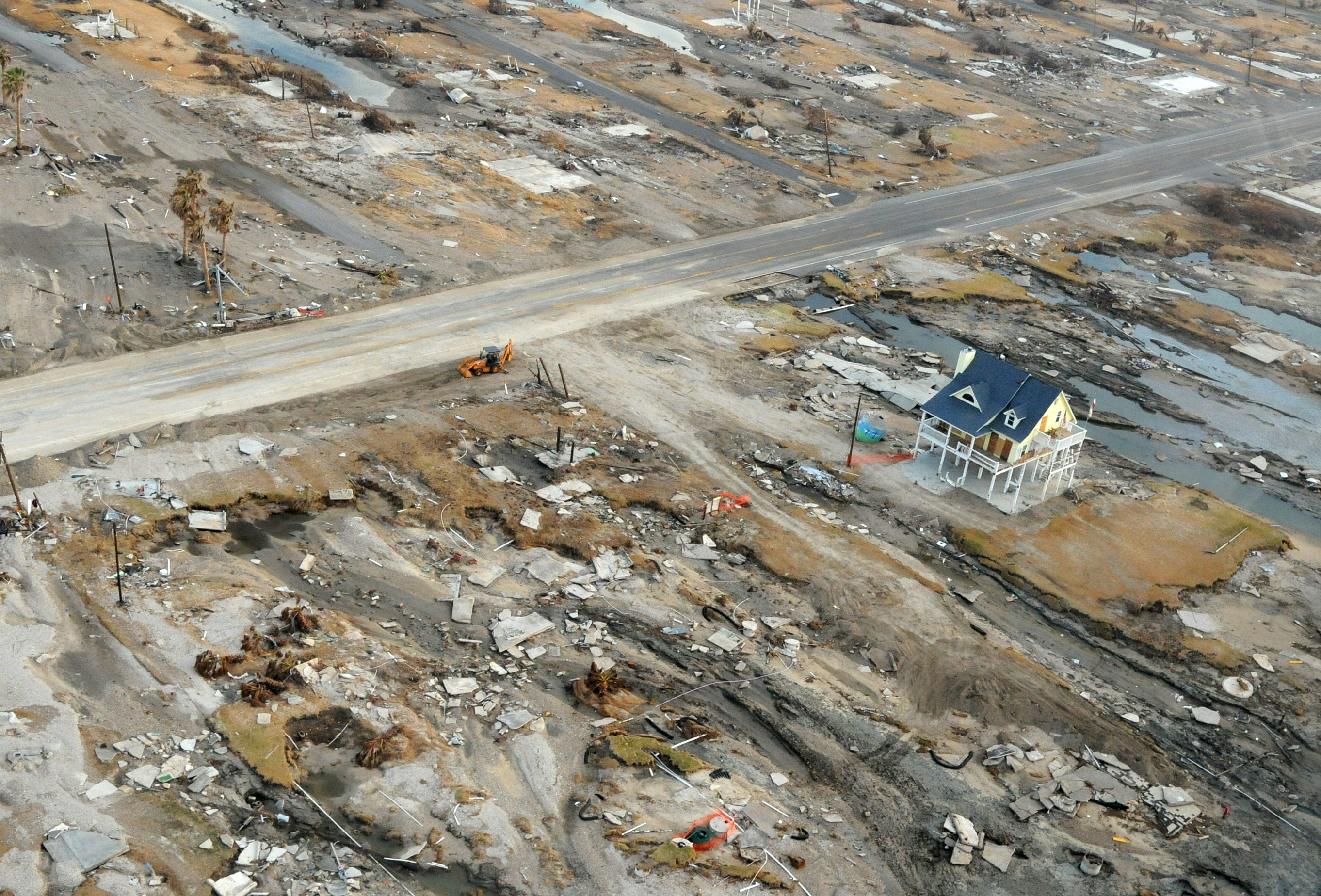 An aerial view of the damage Hurricane Ike inflicted upon Gilchrist, Texas.